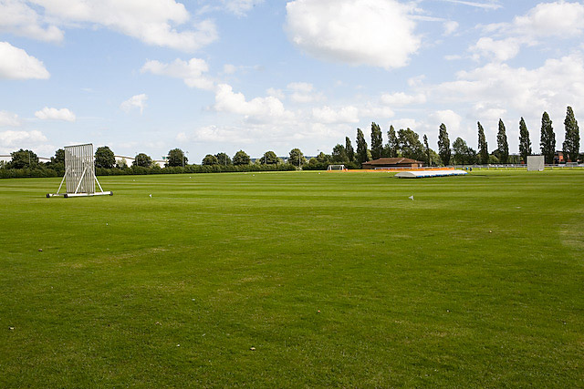 University of Southampton Sports Ground, Eastleigh Cricket field.